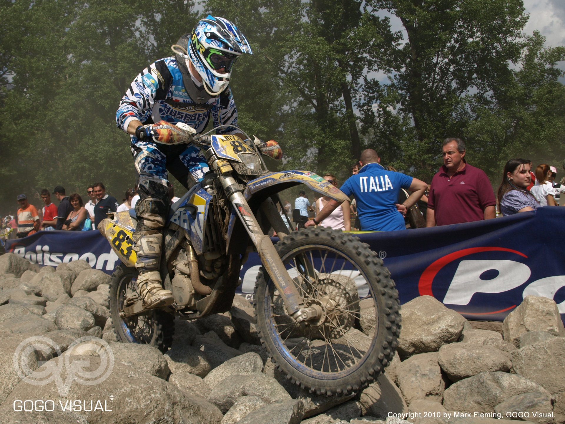 E3 - Mike Hartmann (GER, Husaberg) at the 2010 MAXXIS FIM Enduro World Championship GP of Italy, in Lovere (41st Valli Bergamasche). Running the Xtreme test.